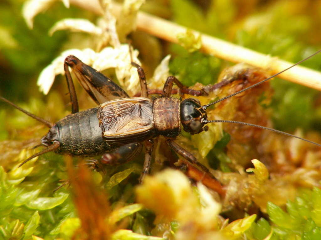 Wood cricket (Nemobius sylvestris lateral view)